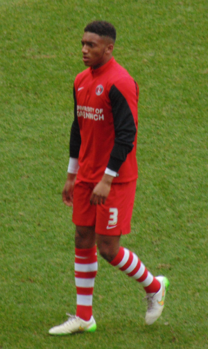 Joe Gomez